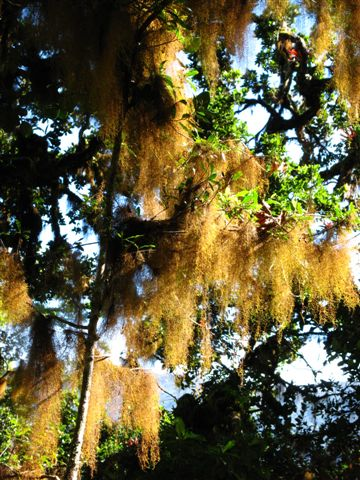 Costa Rica Talamanca